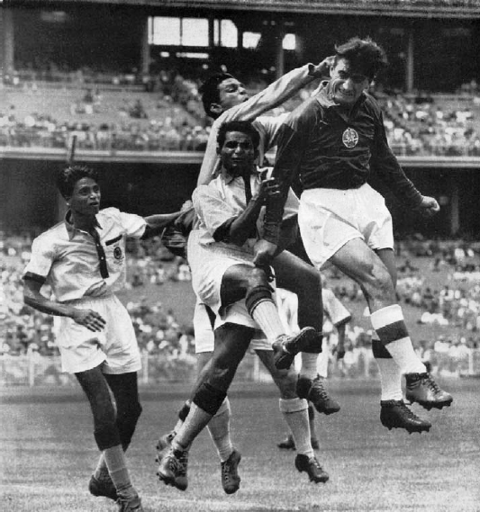 A tussel infront of the Indian goal at match during 1956 Olympics at Melbourne, Australia. The Indian goal keeper S. S. Narayan (jumping) along the midfielders, Mariappa Kempiah (left) and Muhammad Noor (below Narayan) trying to keep the ball away from the reach of Bulgarian striker.